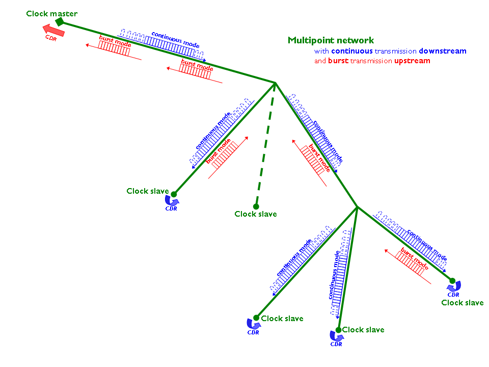 Schematics of a point-to-multipont access network (A PON in fact, but very similar to Wireless access and to first Ethernet implementations). BORGATO Pierandrea (talk) 17:11, 9 February 2008 (UTC)